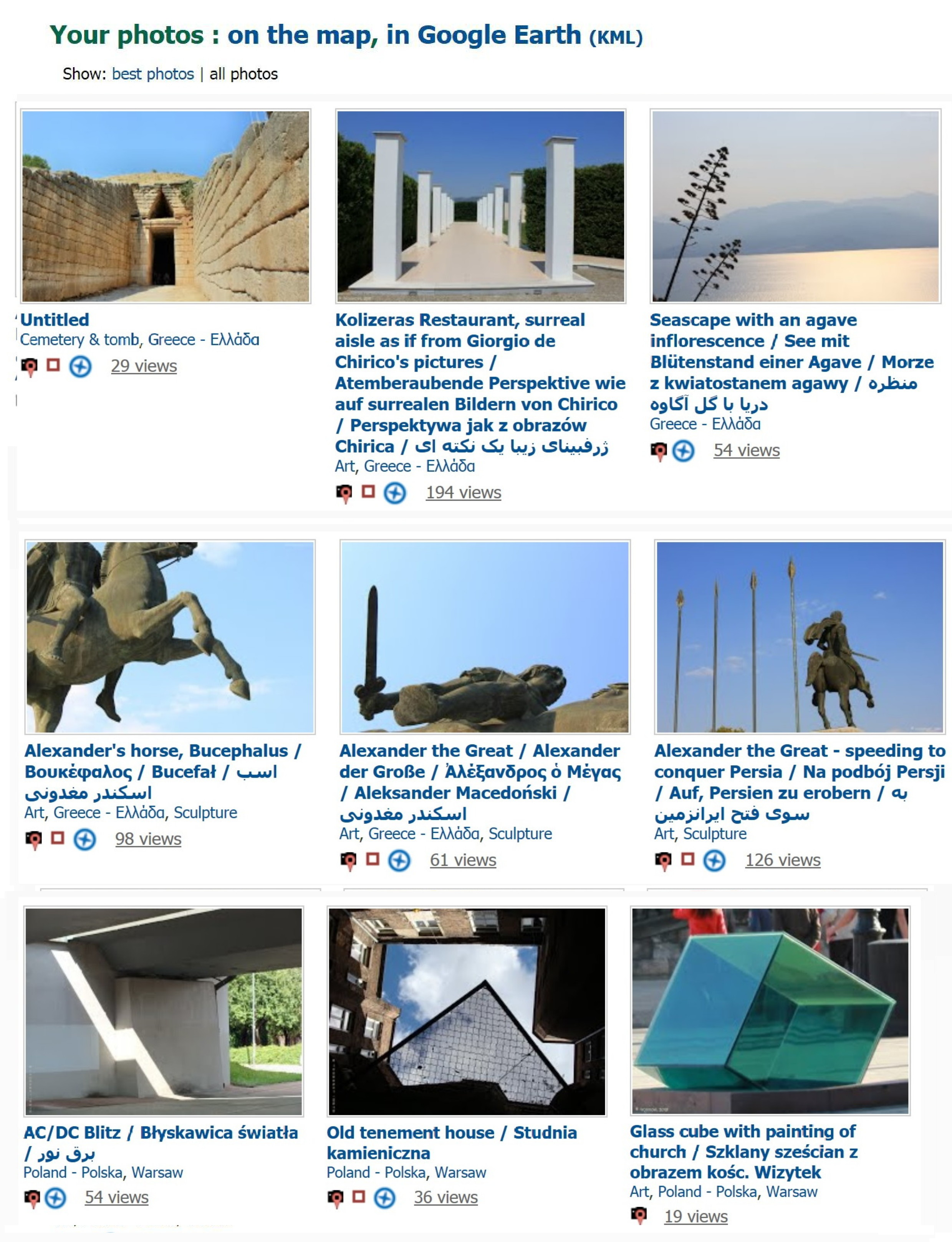 A sample Panoramio page of user 656563 showing many of the sites possibilities: below the picture: possibility to add descriptions in multiple languages; the red dot indicates the picture had been positioned on Google Earth; the blue Panoramio logo shows the picture had been accepted by Panoramio moderators (as being in line with Panoramio regulations); the digits show the number of views.